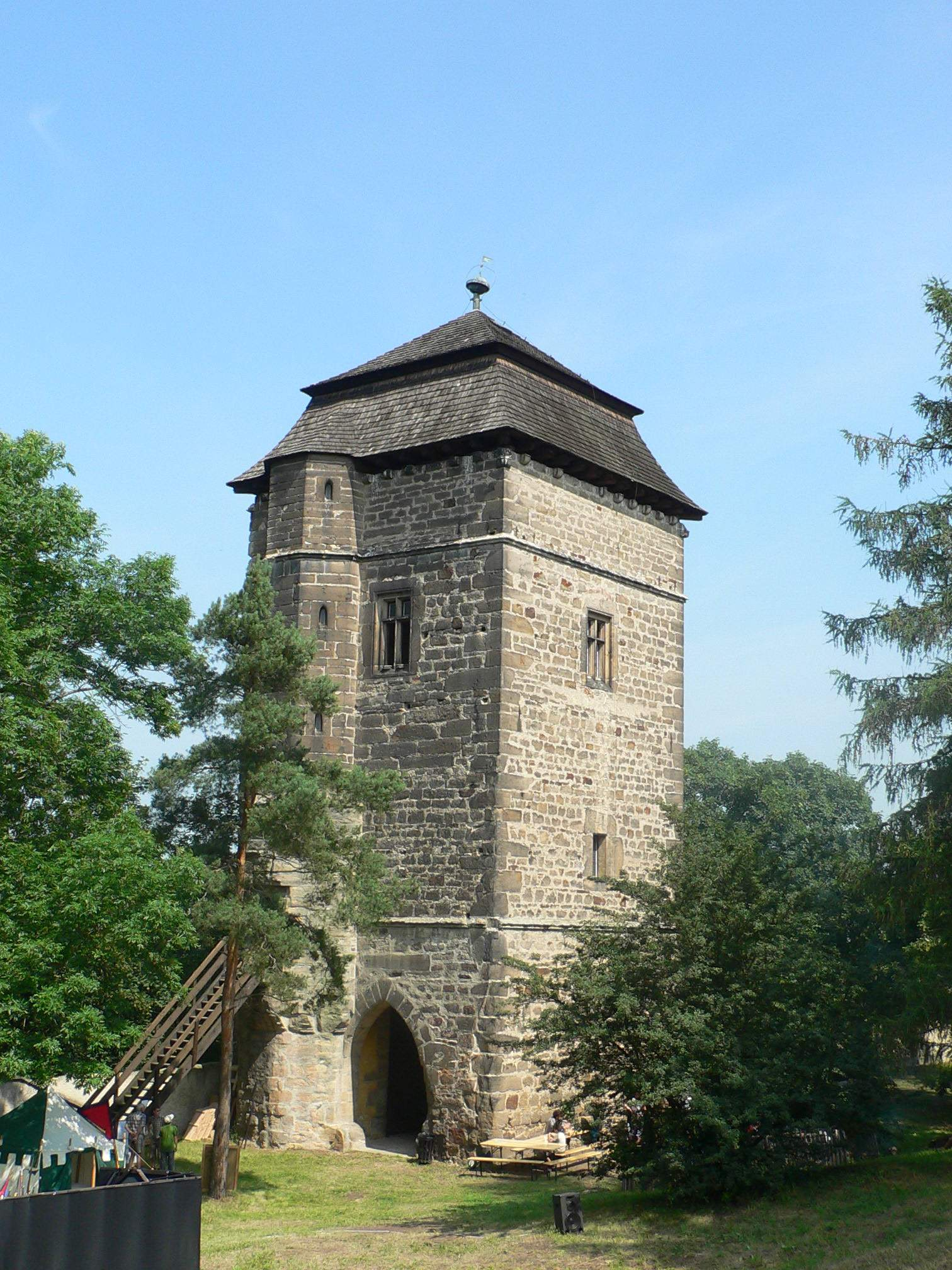 Stronghold in Tuchoraz